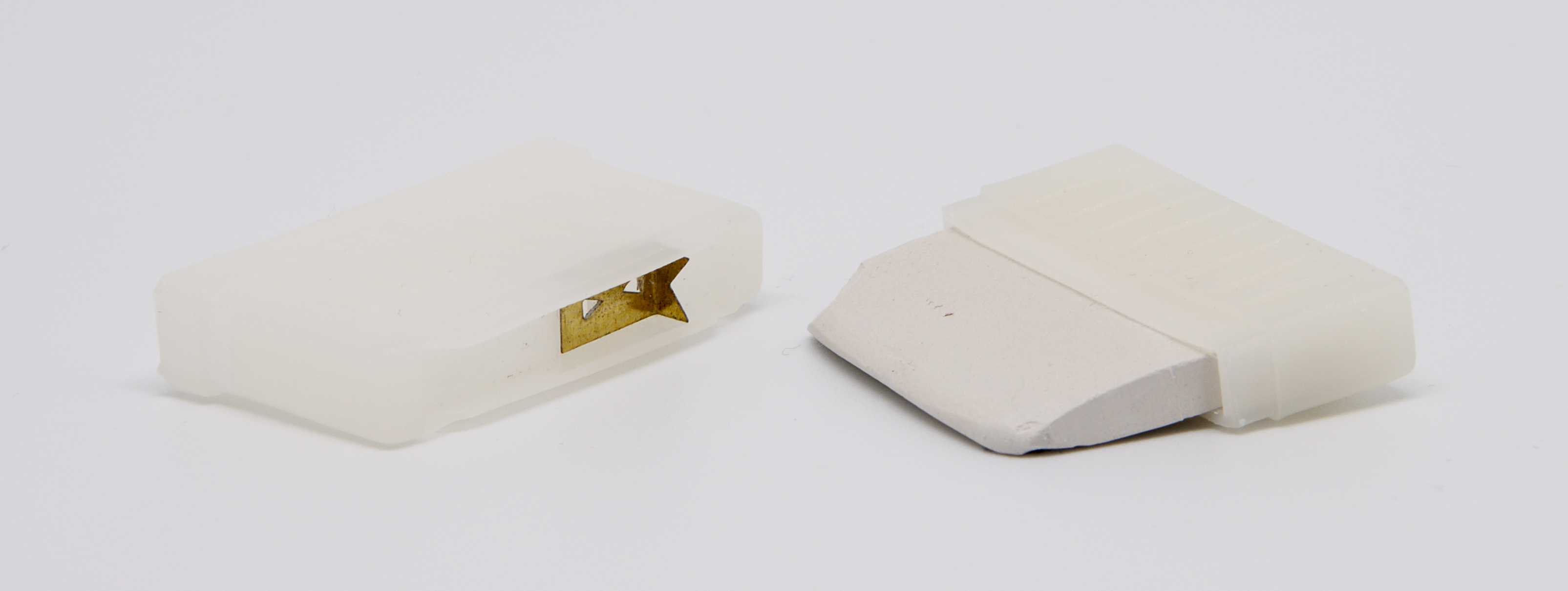 White tailor's chalk, with a sharpener on the cap